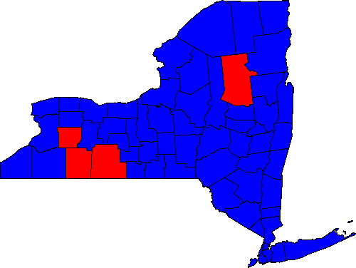 Image showing county-by-county results of the 2006 US Senate election in New York, results taken from